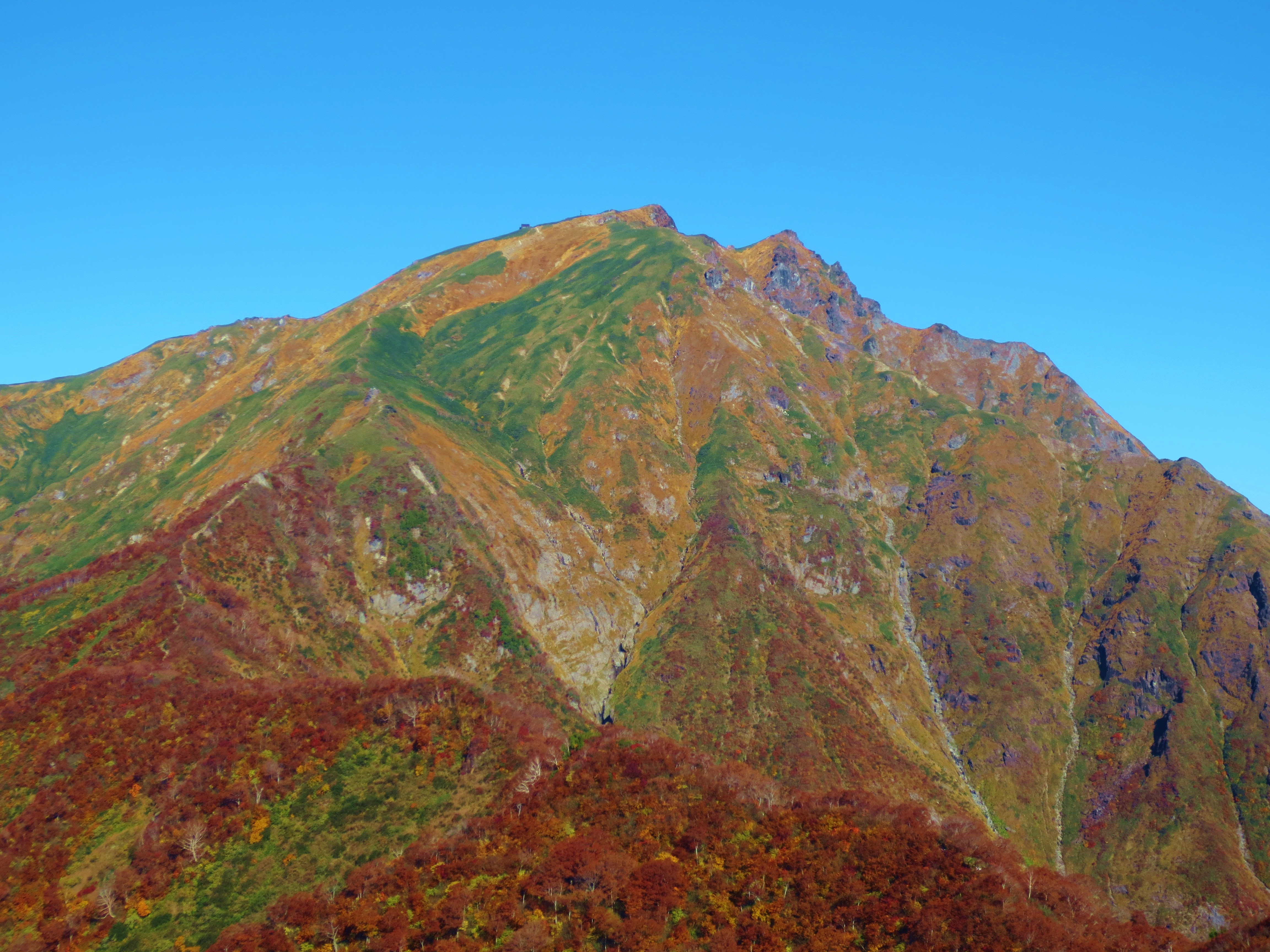 Mount Tanigawa (Okinomimi and Tomanomimi).